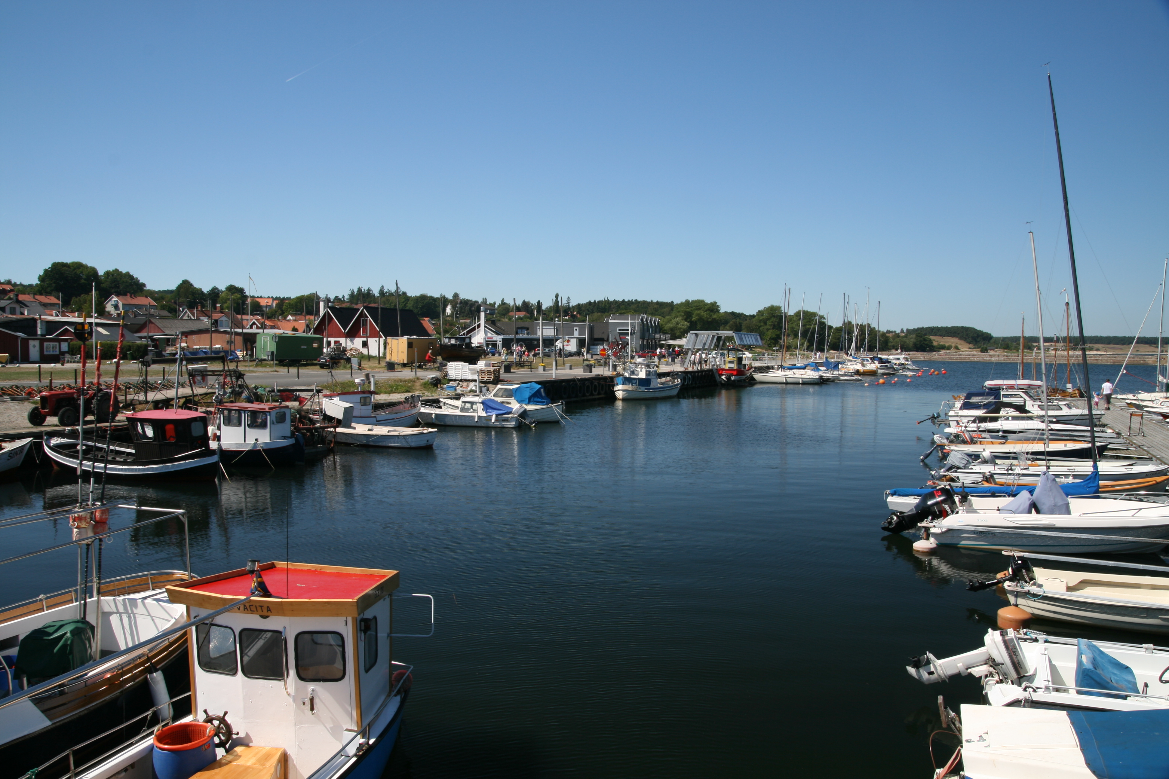 The harbour in Kivik, Sweden.